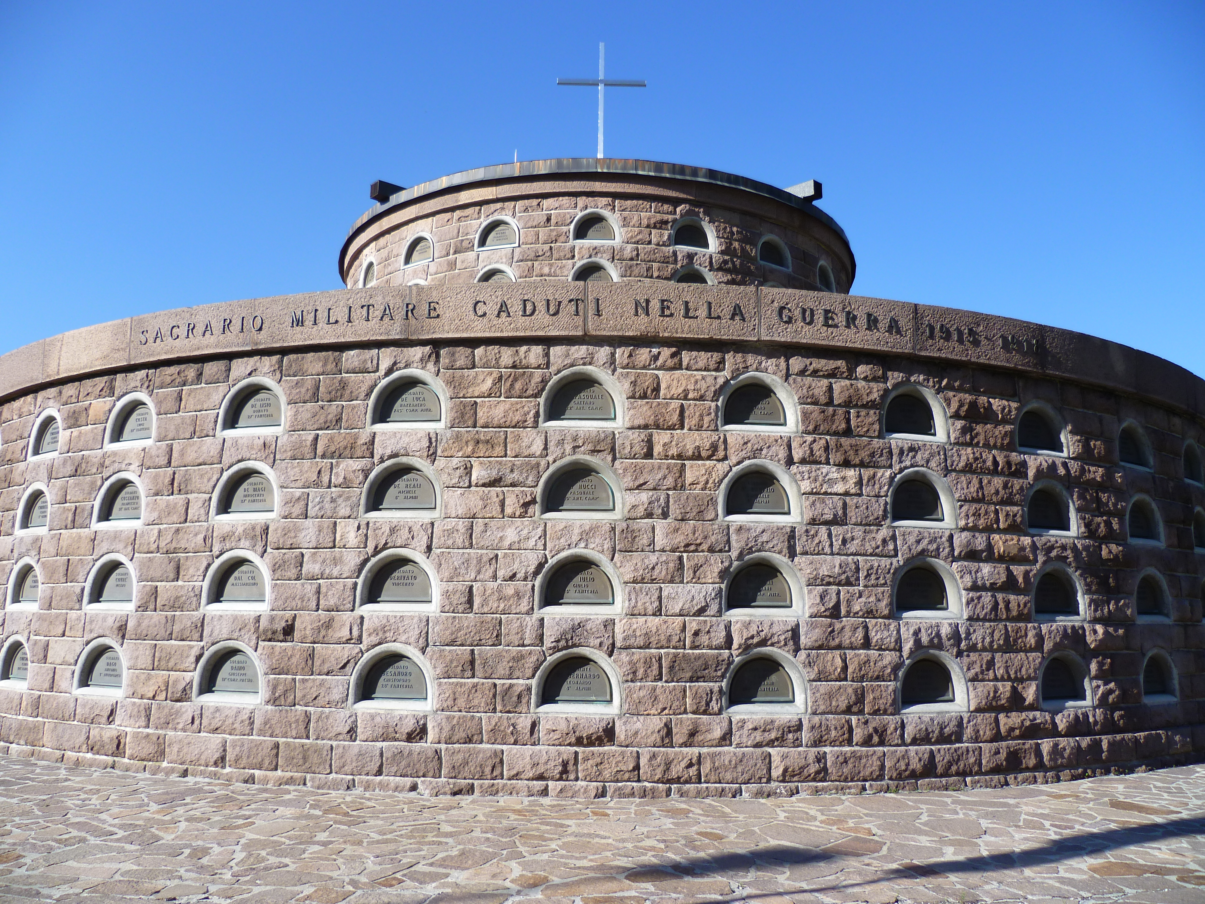 Military Italian ossuary near Innichen-San Candido in South Tyrol, Italy.